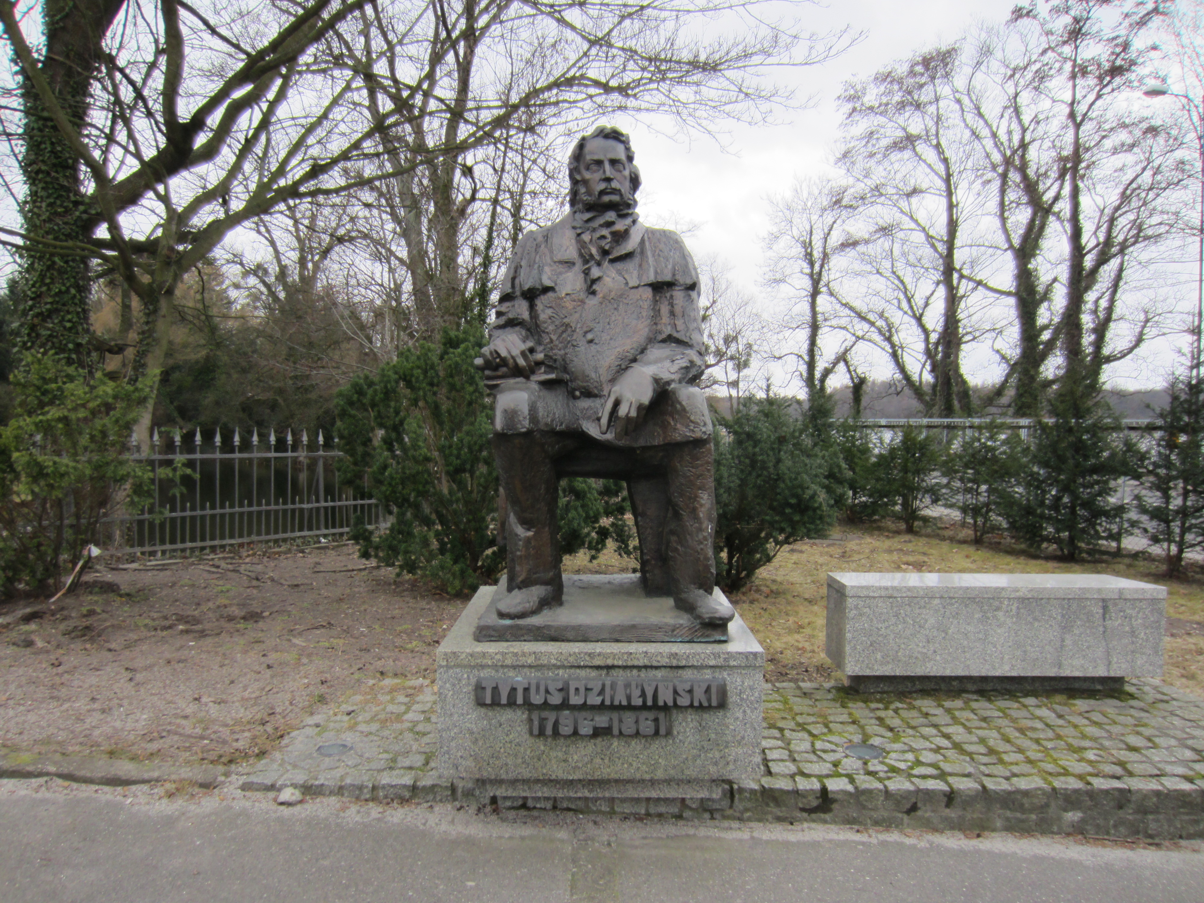 In or near Poznan, Poland Creation date is incorrect